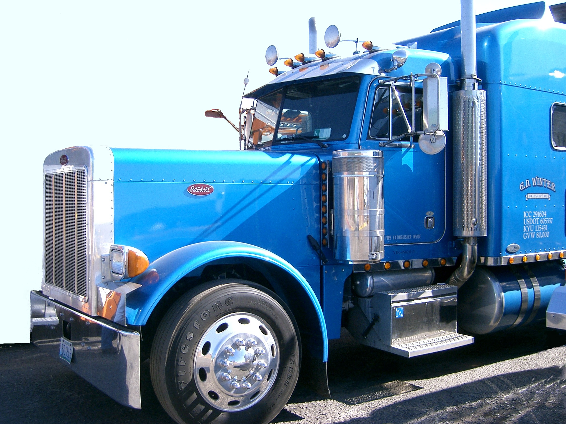 Peterbilt truck California 2007